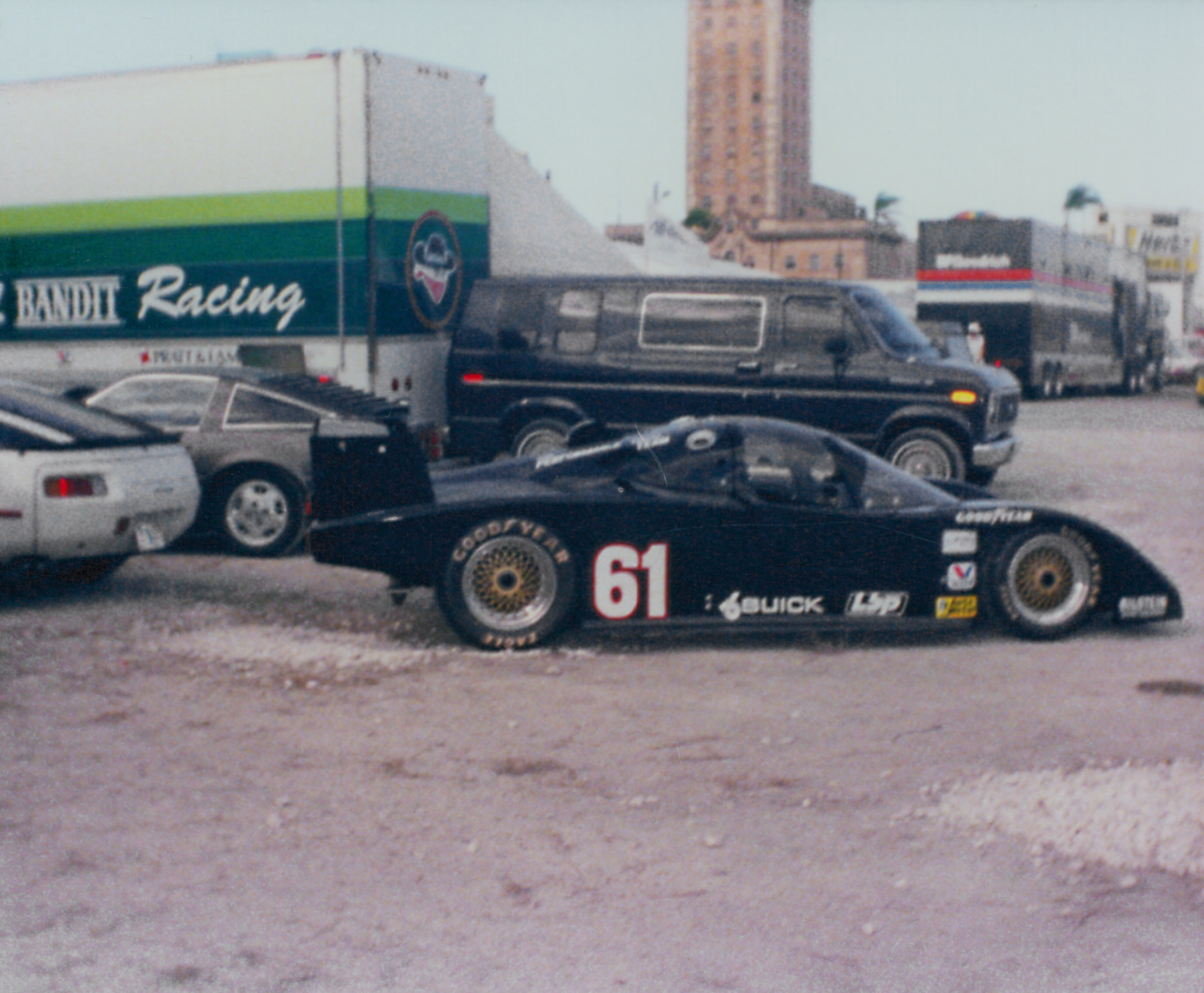 The Performance Tech-entered Royale RP40-Buick in the paddock during practice for the 1987 IMSA Miami Grand Prix (Lights class). Photo taken with a Vivitar 110-film camera.